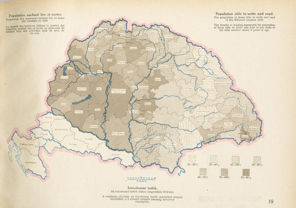 Literacy in Kingdom of Hungary by counties in 1910. (This map does not contain information about Croatia)